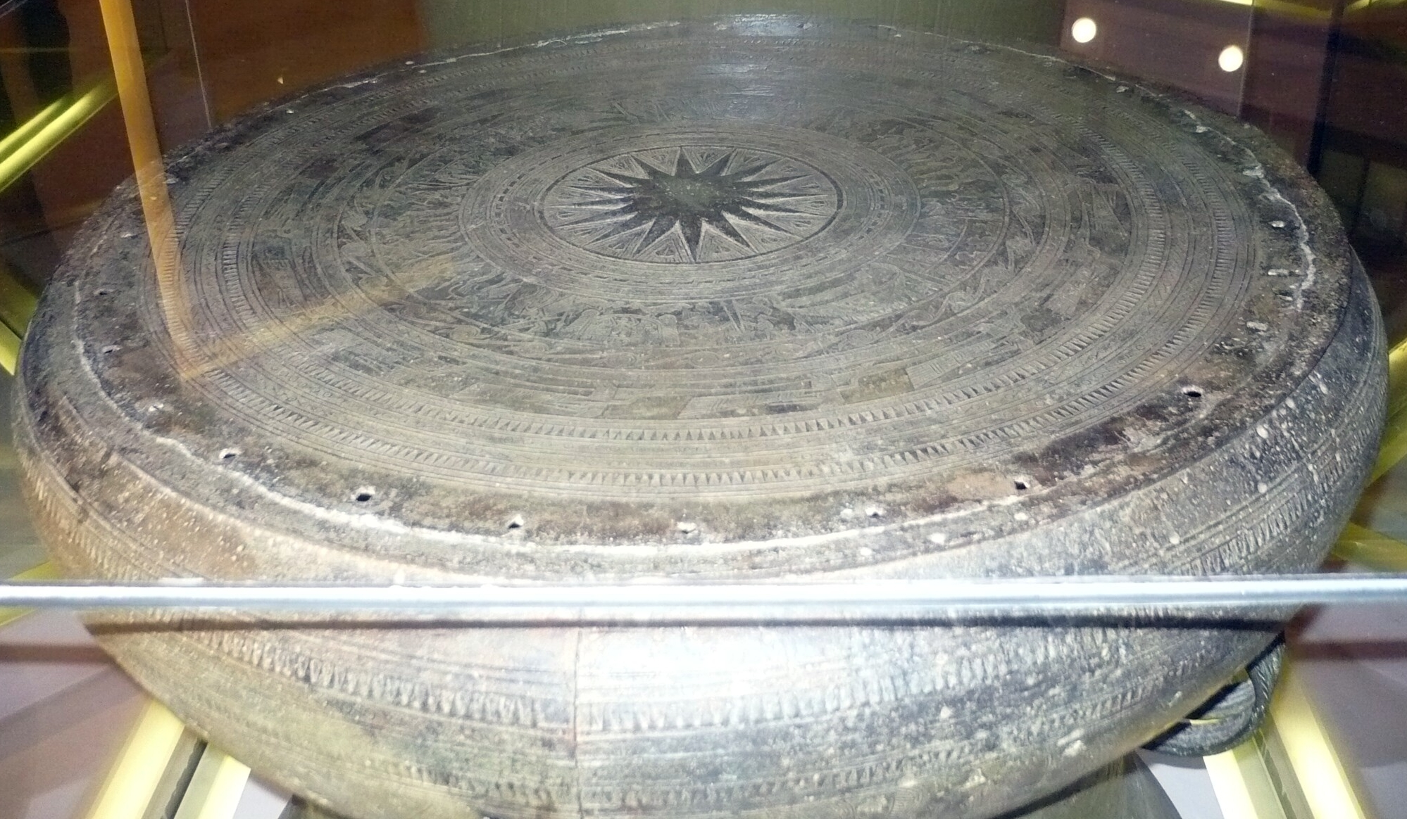 HOÀNG HẠ BRONZE DRUM Hòa Bình Province h: 61.5cm, d: 79cm